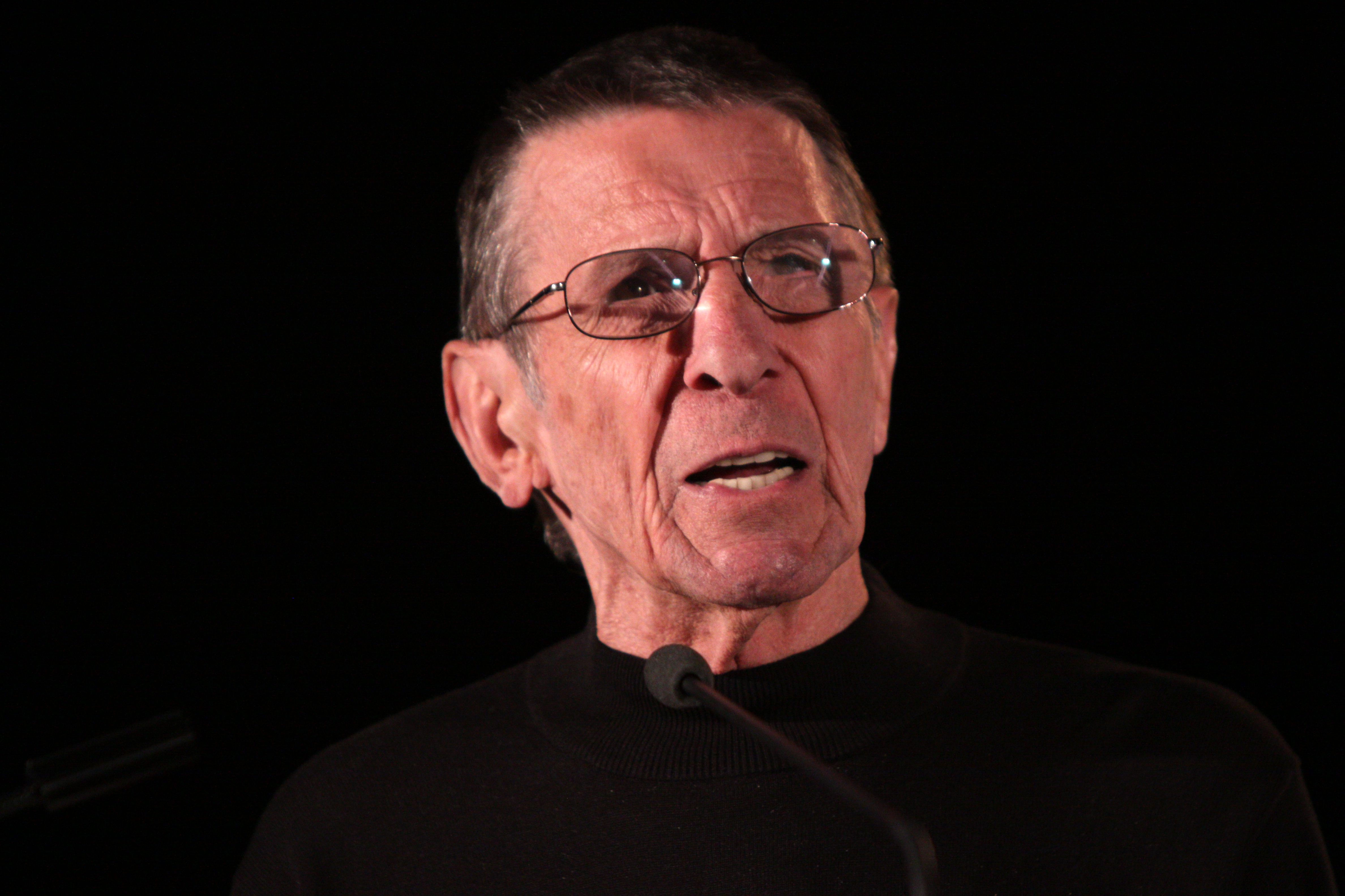 Leonard Nimoy at the Phoenix Comicon in Phoenix, Arizona.